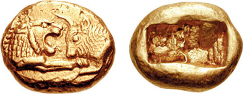 Kings of Lydia. Time of Kroisos. Circa 561-546 BC. AV Stater (8.06 gm). Sardes mint. Light series. Confronted foreparts of lion and bull Two square incuse punches of unequal size. Traité pl. X, 2; BMC Lydia pg. 6, 31; SNG Copenhagen Suppl. 362; Boston MFA 2073; SNG von Aulock 2875. Choice EF. From the Ronald Cohen Collection. Ex Tkalec (18 February 2002), lot 81.